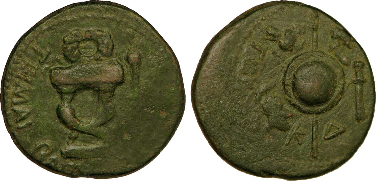 Tetranummia frappé sous le règne de Cotys I du Bosphore Date : 50-54 Description avers : Chaise curule surmontée d’une couronne, dans le champ à droite, un sceptre surmonté d’une tête humaine Description revers : Bouclier fiché sur une lance ; dans le champ supérieur gauche, une tête de cheval à gauche, une tête humaine à droite; au-dessous, un casque tourné à droite et de l’autre côté, une épée dans son fourreau .